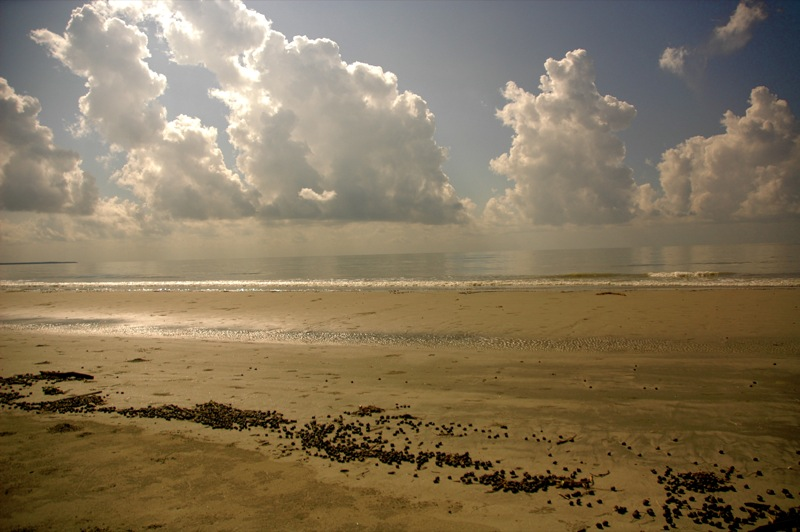 Expanse of mud, with seagrass, water on the horizon, and towering white cumulus congestus clouds in a sunny sky above. Sundarbans, Bangladesh.